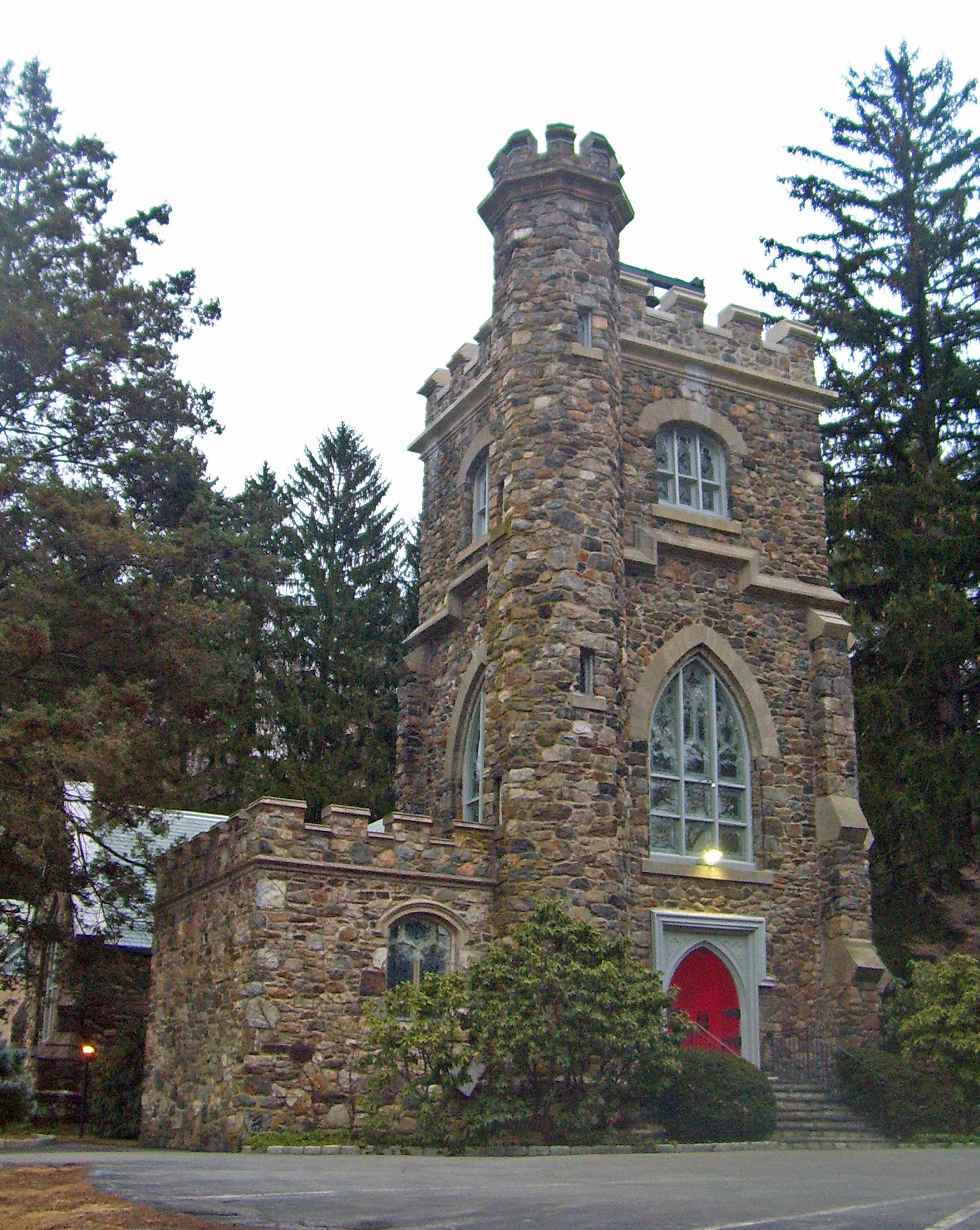 Tower and main entrance at Church of St. Mary the Virgin